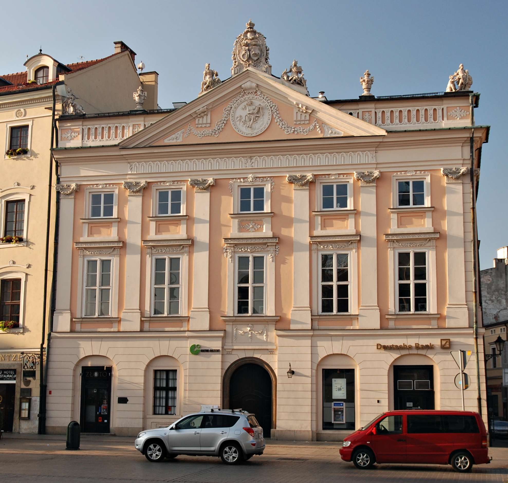 Palace of Zbarascy. Market Square 20, Kraków, Poland